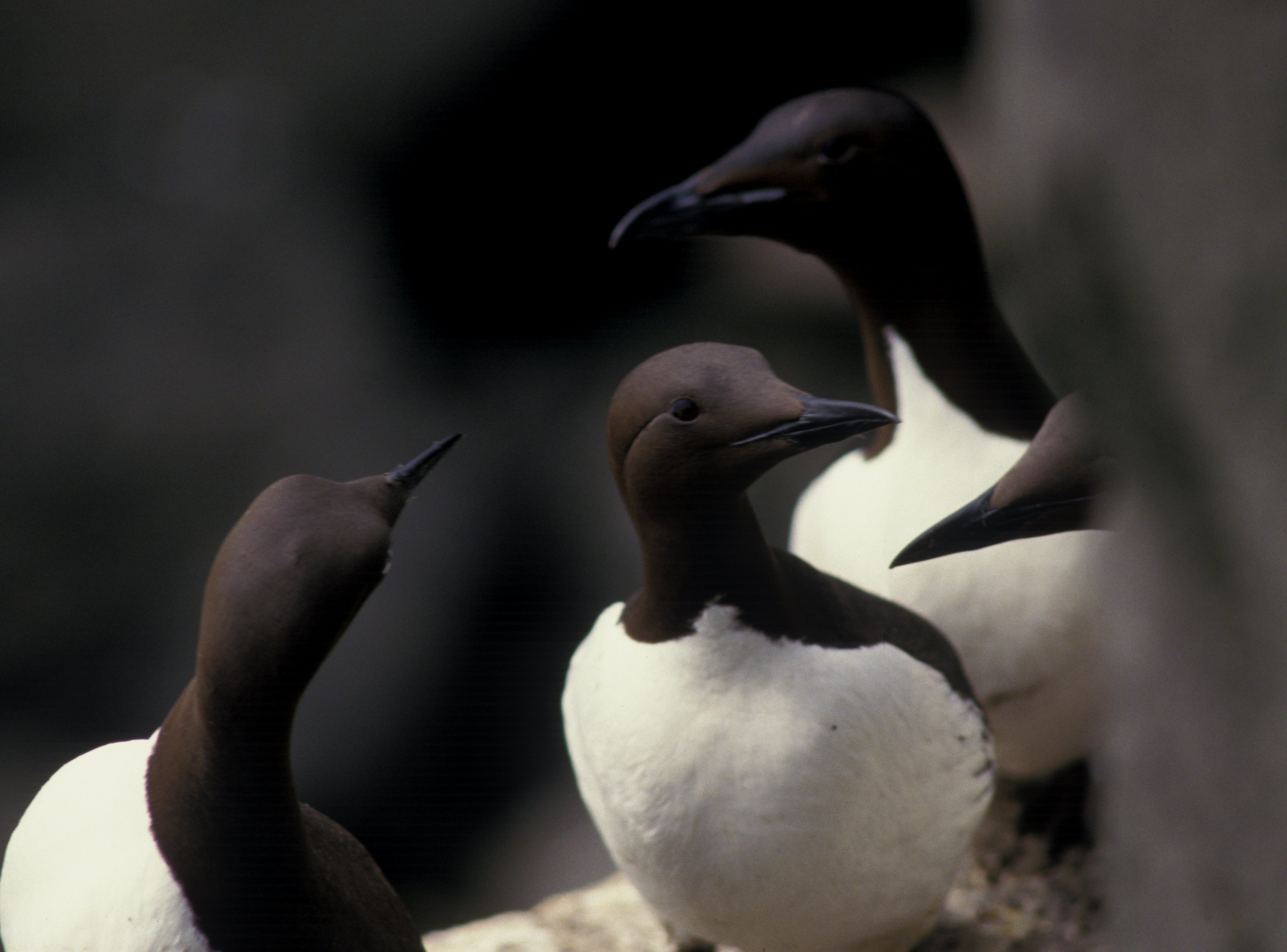 Common murre. Alaska, Pribilof Islands, St. Paul.